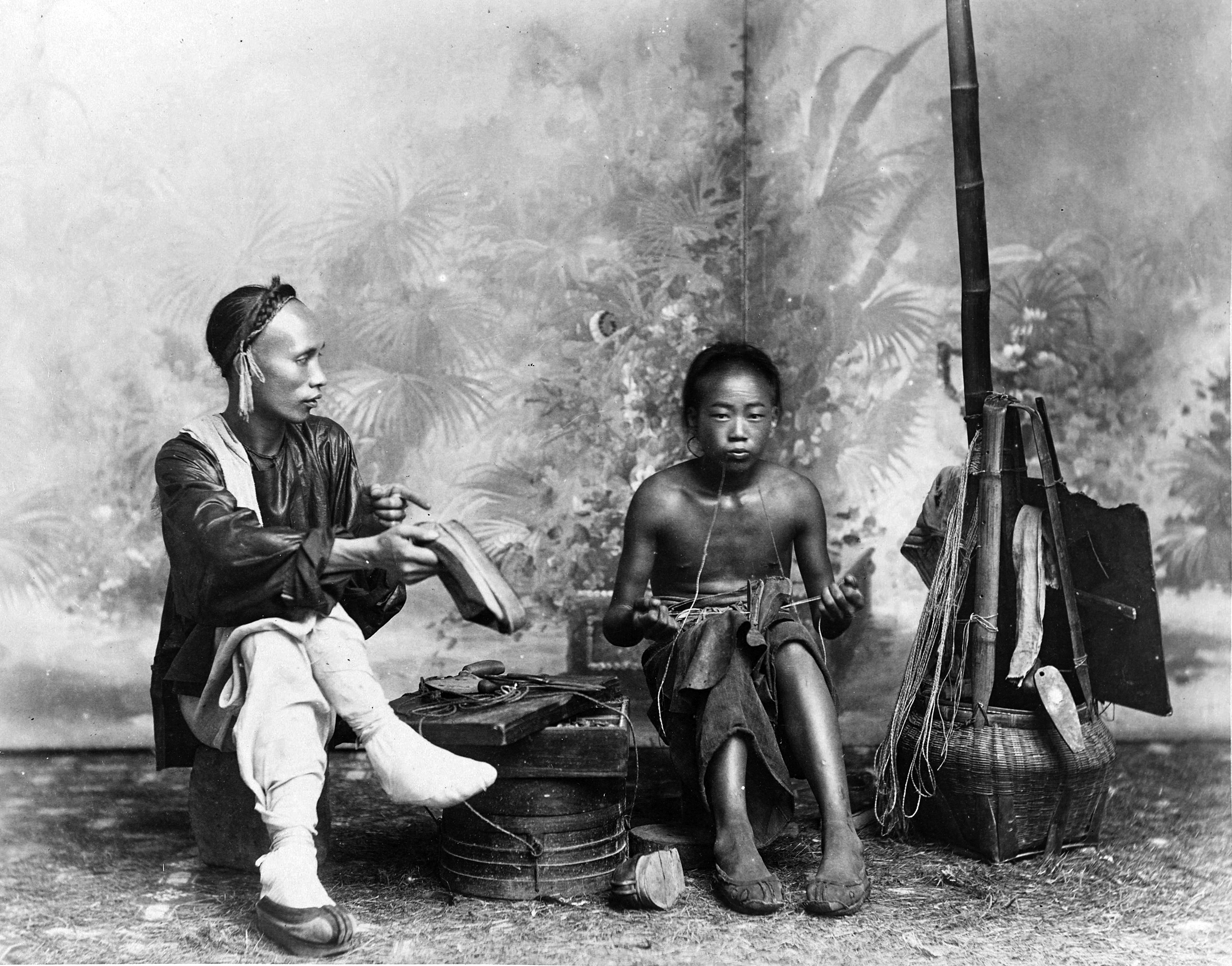 Photograph in People and views of China.